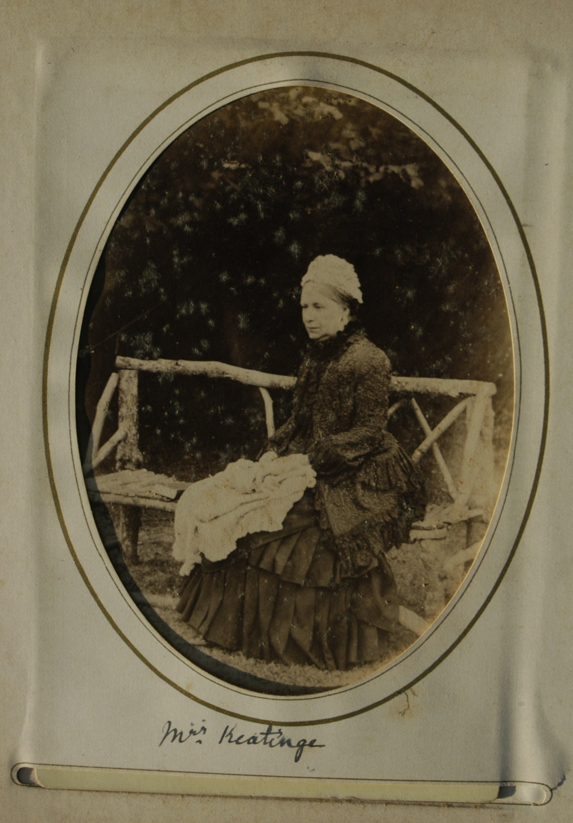 My photo (R. de SalisRodolph (talk) 09:41, 14 August 2013 (UTC)) of a photograph of Ellen-Flora Mayne, Mrs Maurice Keatinge (1828 or 1829-1907).